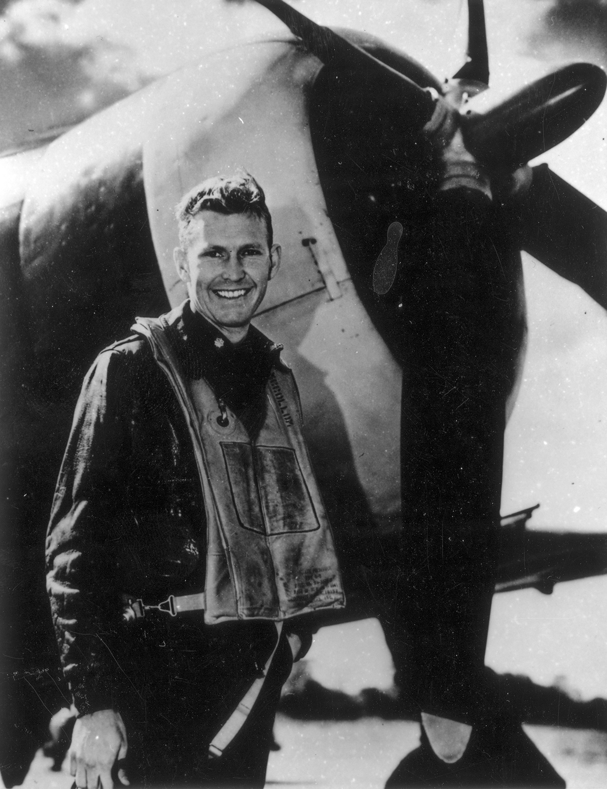 Lieutenant Colonel Loren G. McCollom, Commanding Officer of the 61st Fighter Squadron, 56th Fighter Group with his P-47 Thunderbolt.